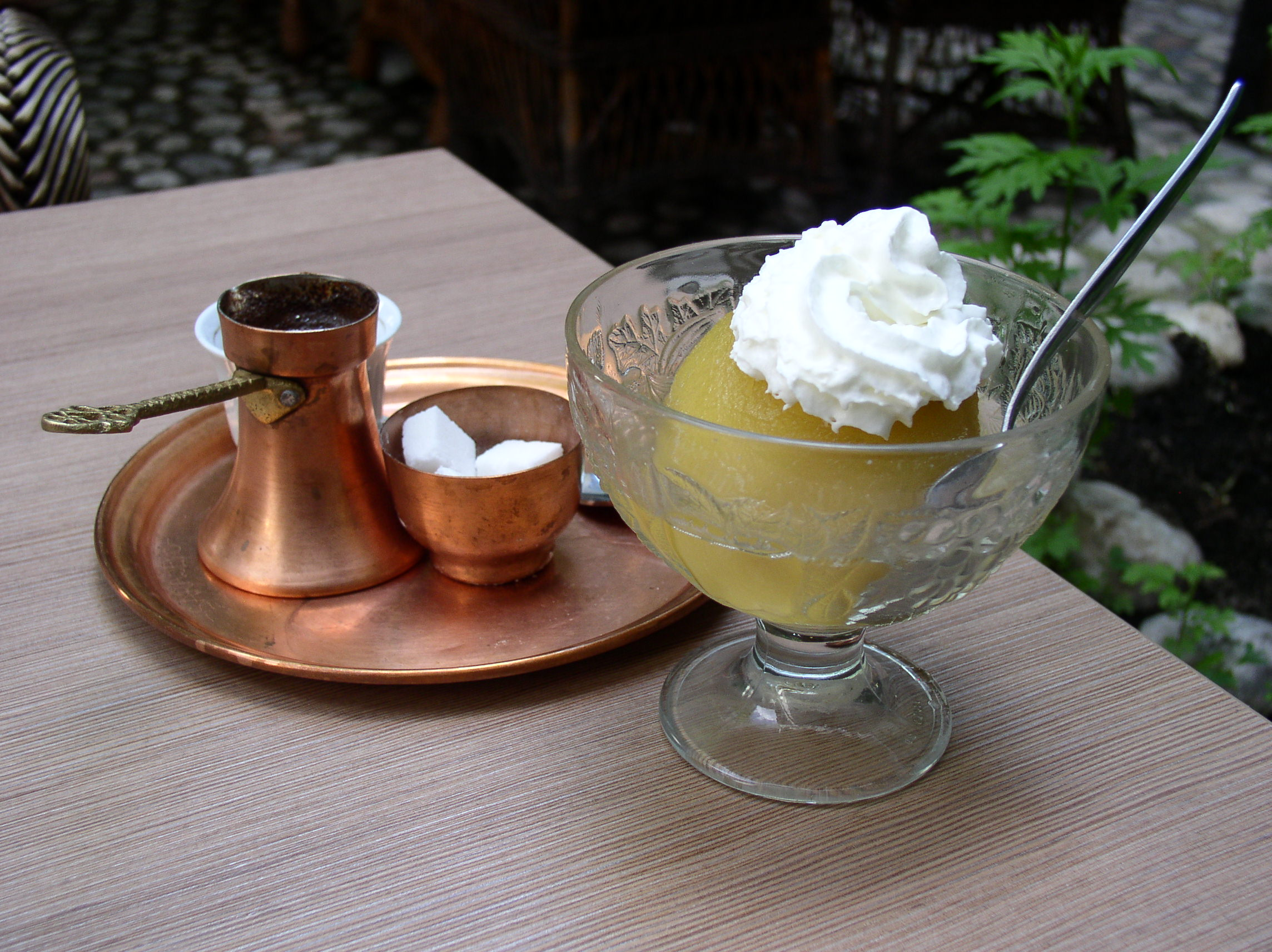 Tufahija